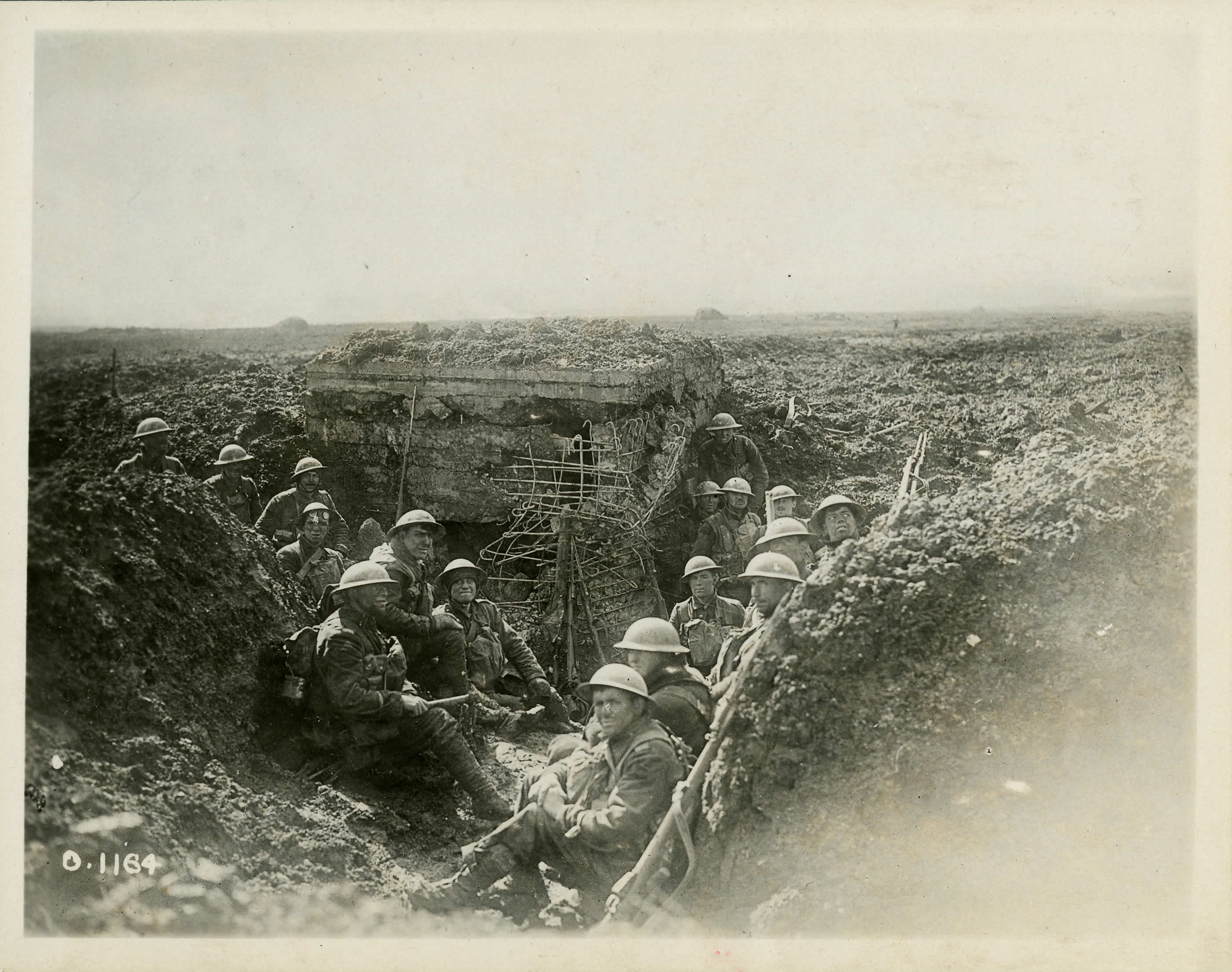 A machine gun emplacement on the crest of Vimy Ridge and the men who drove the Germans from it during the Battle of Vimy Ridge